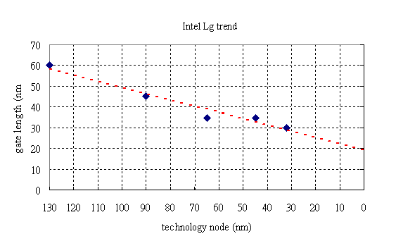 Trend of Intel CPU gate length since 130 nm node. References: Intel IEDM papers since 90 nm node and Intel Technology Journal vol. 6 Issue 2 (2002).